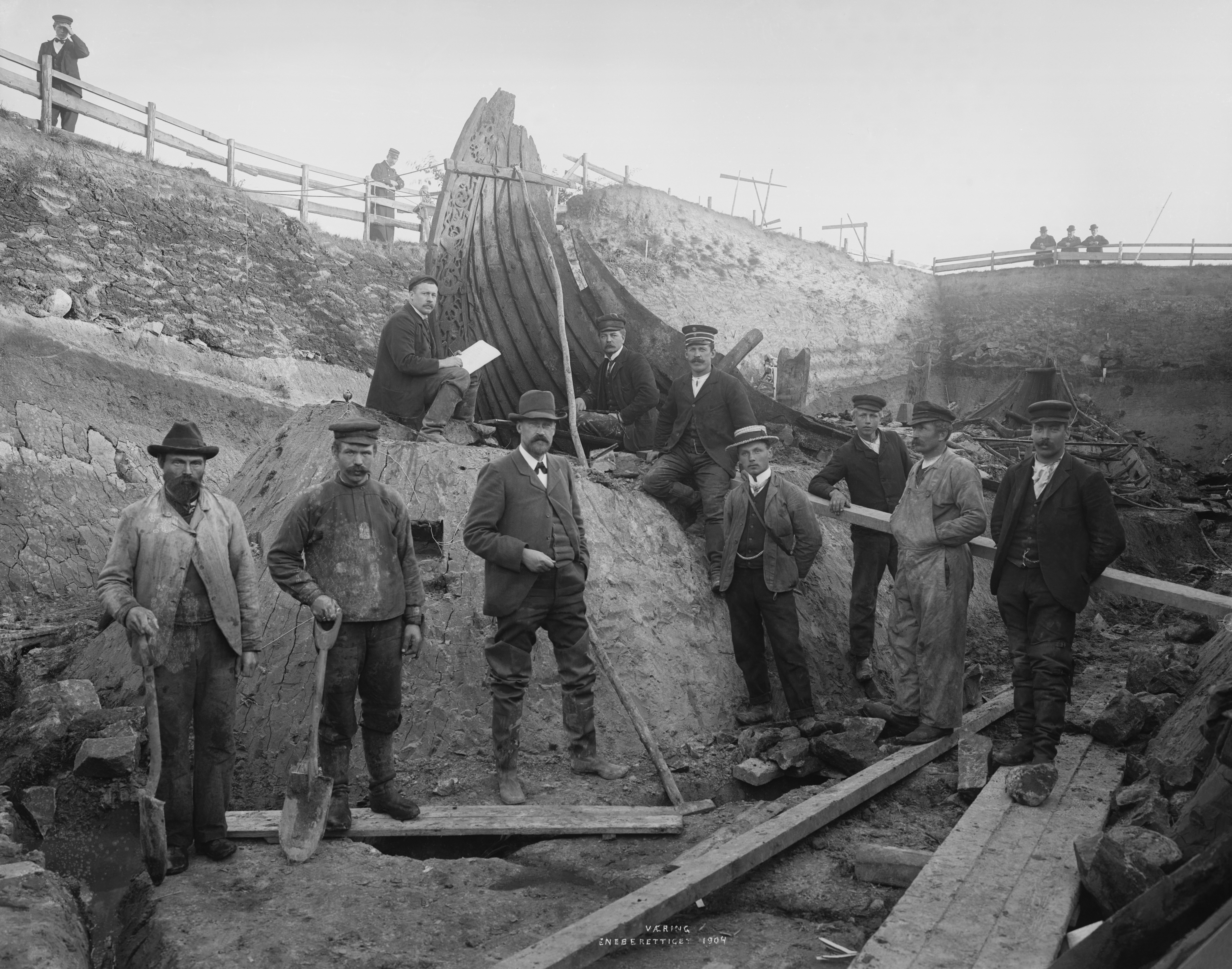 Archaeologist Gabriel Gustafson and his team during the excavation of the Oseberg burial mound near Tønsberg (100 km southwest of Oslo, Norway) in 1904. The Viking era find consisted of the Oseberg Ship, numerous wooden and metal artefacts, textiles and even sacrificed animals used as offerings to the two buried women. Many of the objects are elaborately decorated with animal heads and ornamental patterns with gripping beasts in the Oseberg Style, an early style of Norse art. The ship and several artifacts are on exhibition at The Viking Ship Museum ("Vikingskipshuset på Bygdøy") in Oslo. Photo copied from the collections of The Museum of Cultural History in Oslo ("Kulturhistorisk museum").